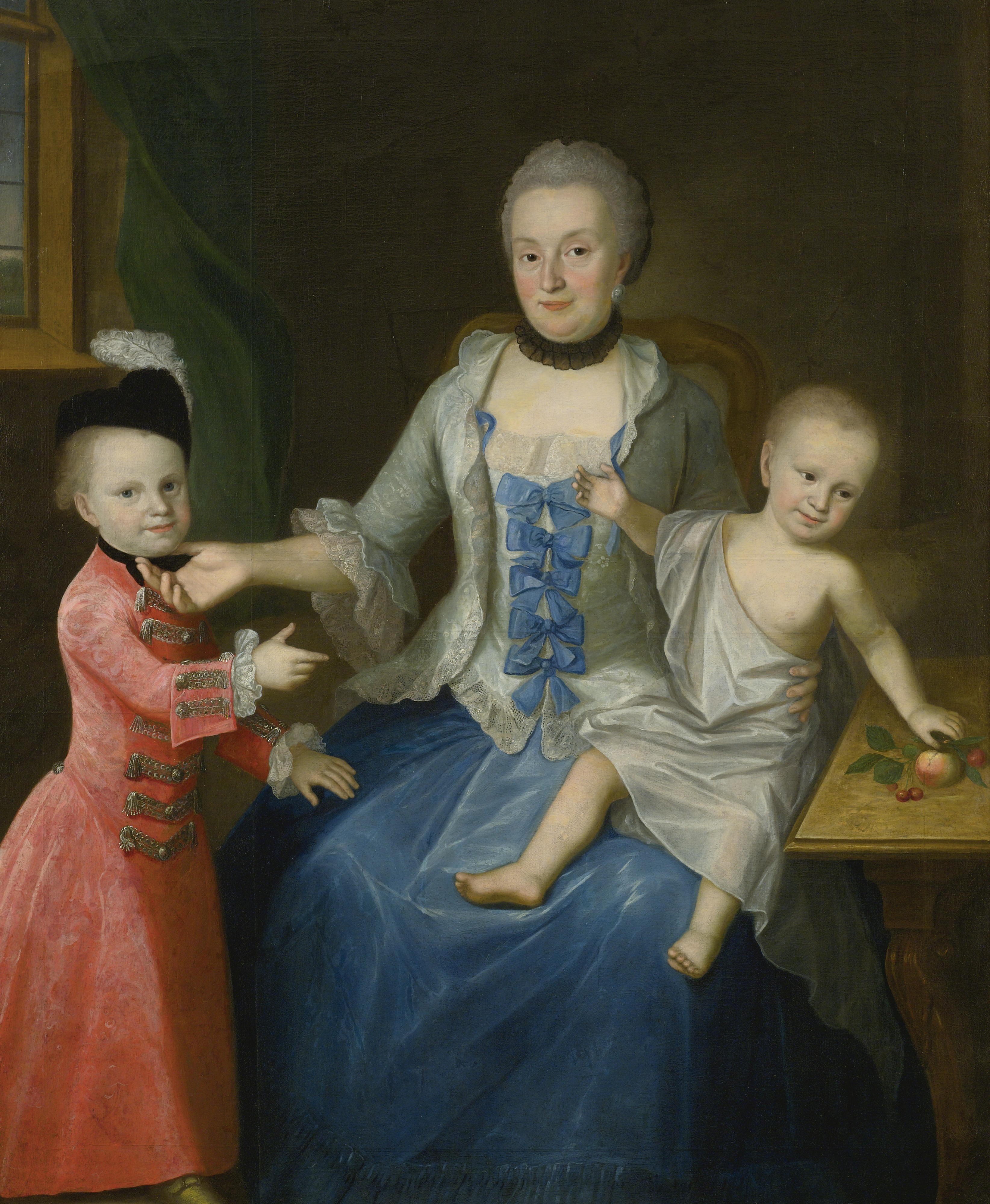 Portrait of Friederica Adolphina, countess of Schlieben, and her two sons, Gotthelf Sigismund and Adolf Friedrich.